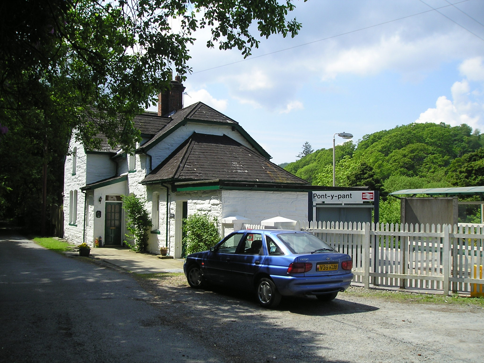 made by me Noel Walley